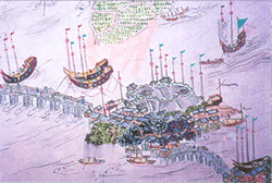 Zhongzhou Island of 300 years ago